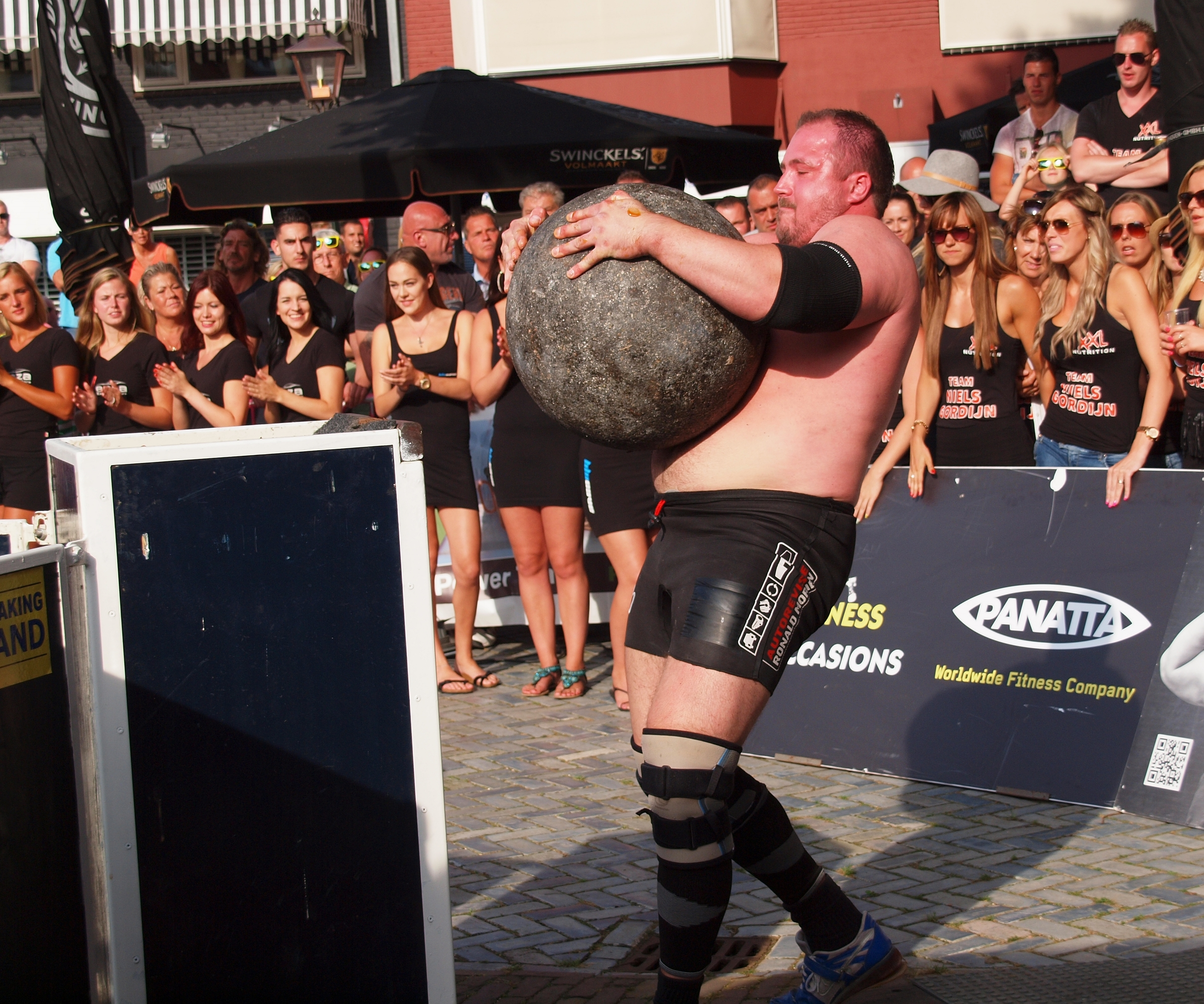 Jitse Kramer, last event before he becomes Holland's strongest man for the second time. Borculo, the Netherlands